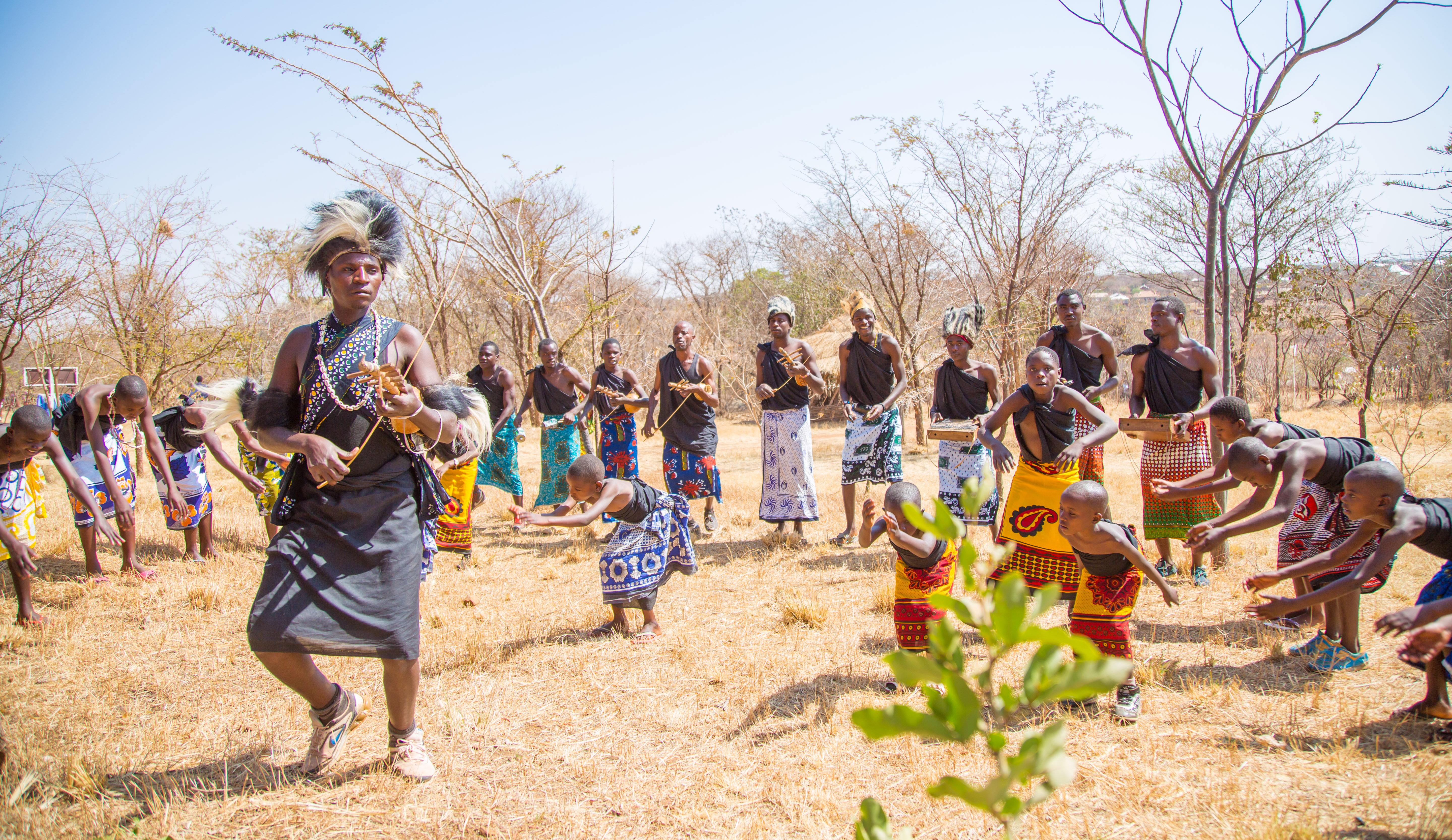 This is an image from Tanzania